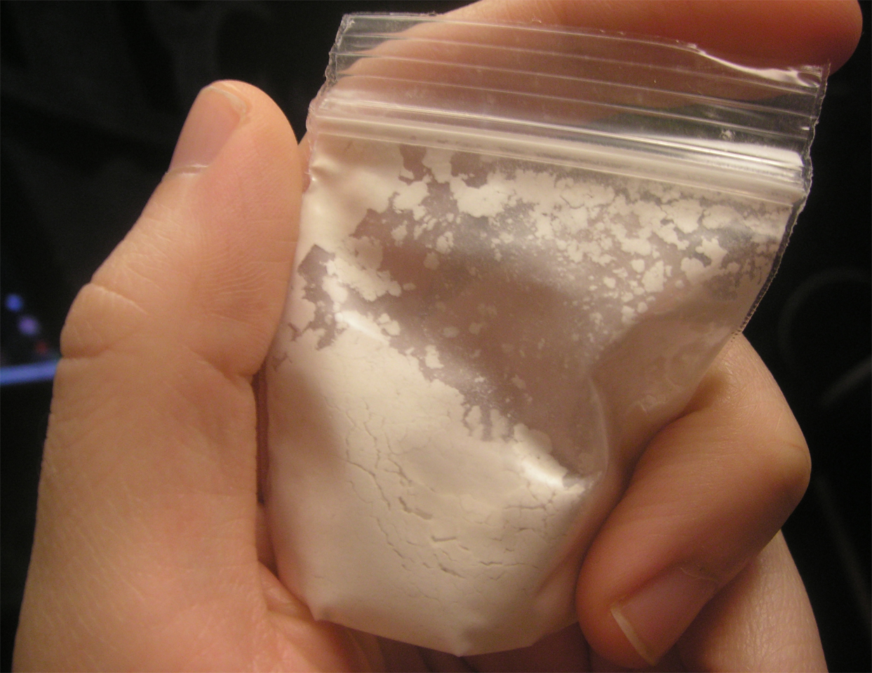 1000mg of 4-bromo-2,5-dimethoxyphenethylamine